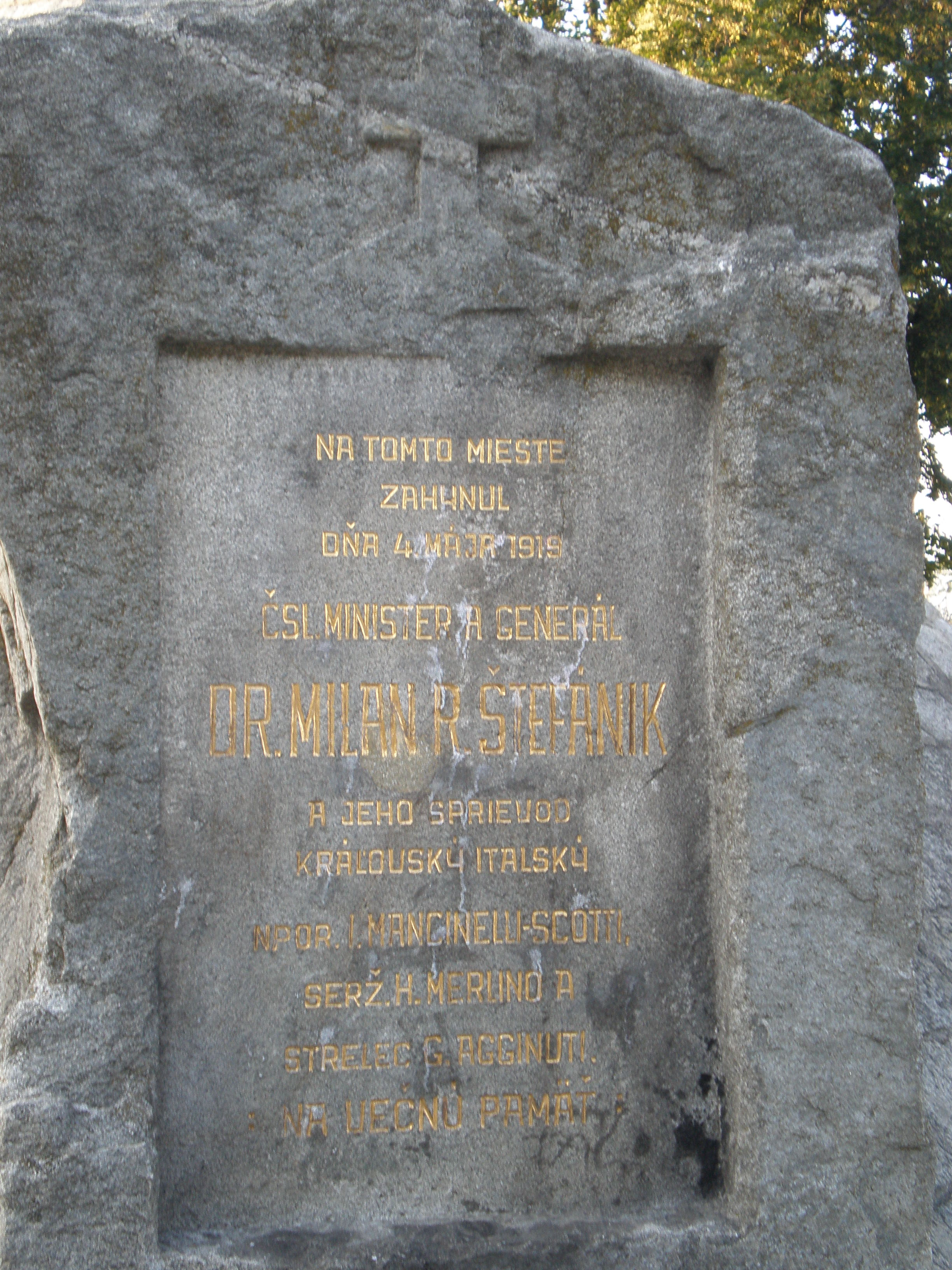 Mohyla in Ivanka